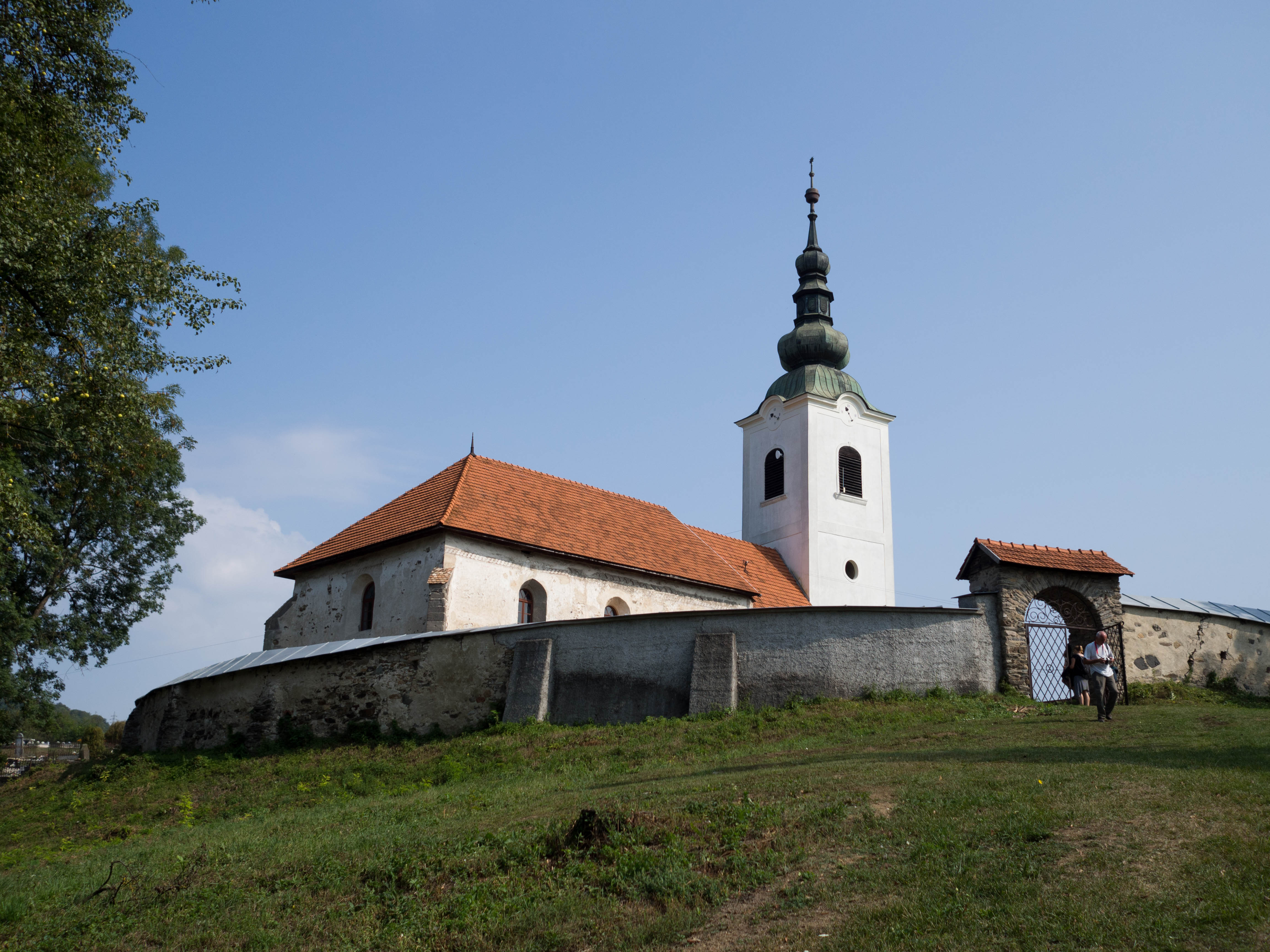 Lutheran Church in Rimavská Baňa, Slovakia, romano-gothic architecture from around 1300.